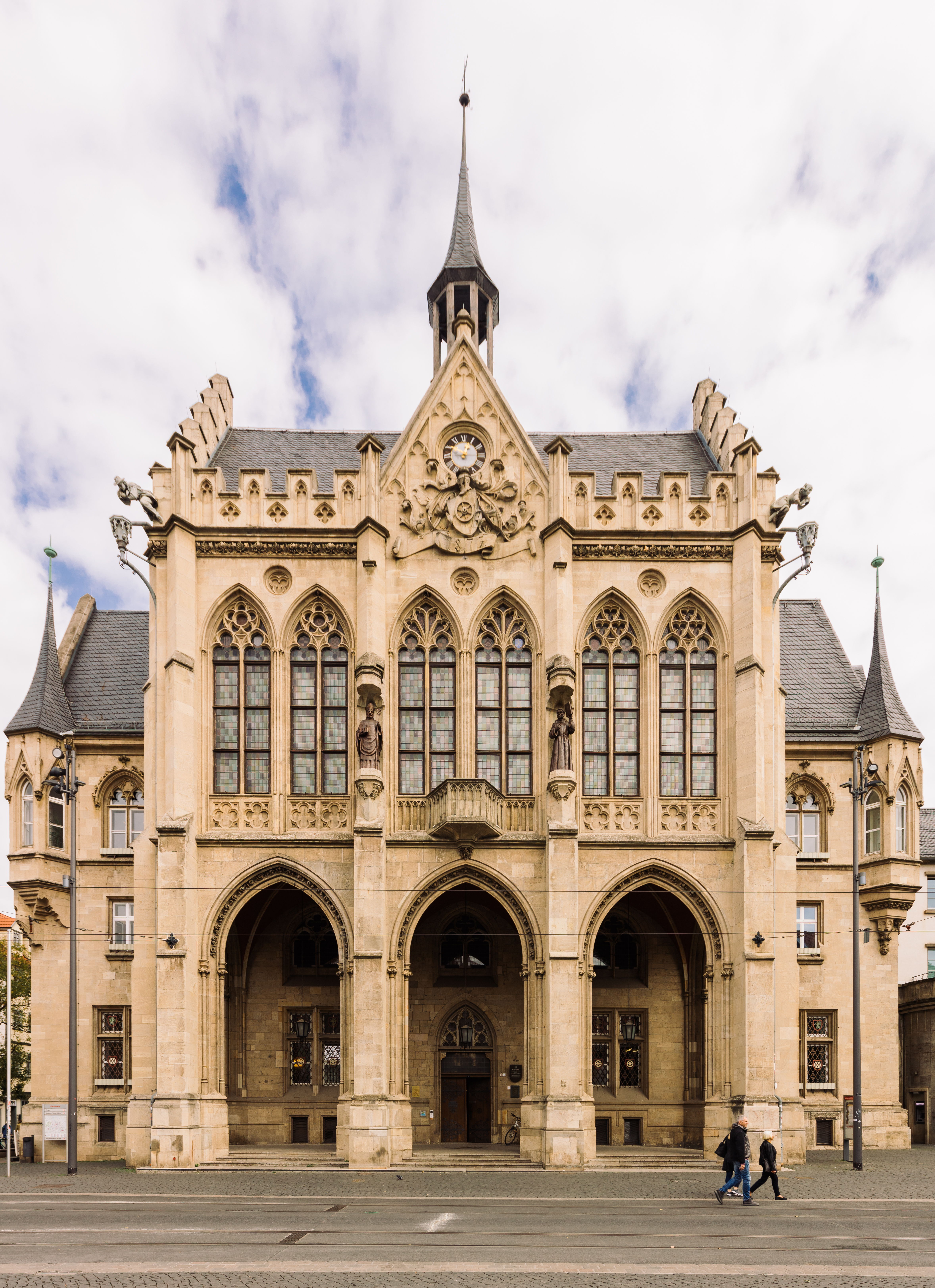 Frontal view of the town hall of Erfurt, Thuringia, Germany.